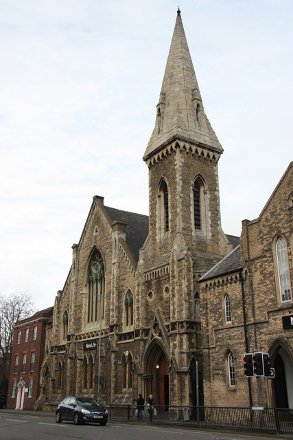 New Life church